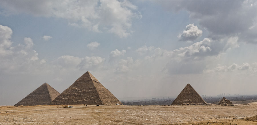 The Giza pyramids, Cairo. You can see the city in the background.